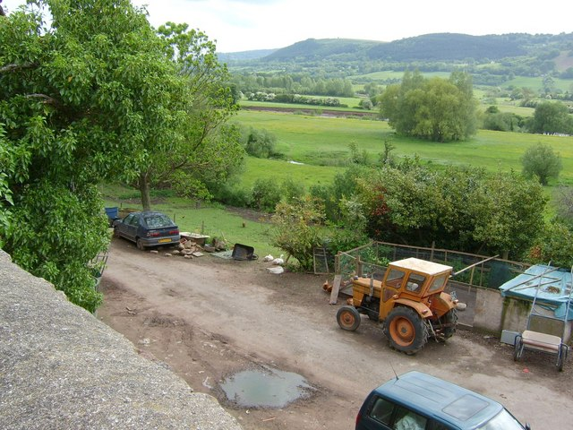 Farmyard below the town wall at Abergavenny. Looking south across the meadows towards the River Usk